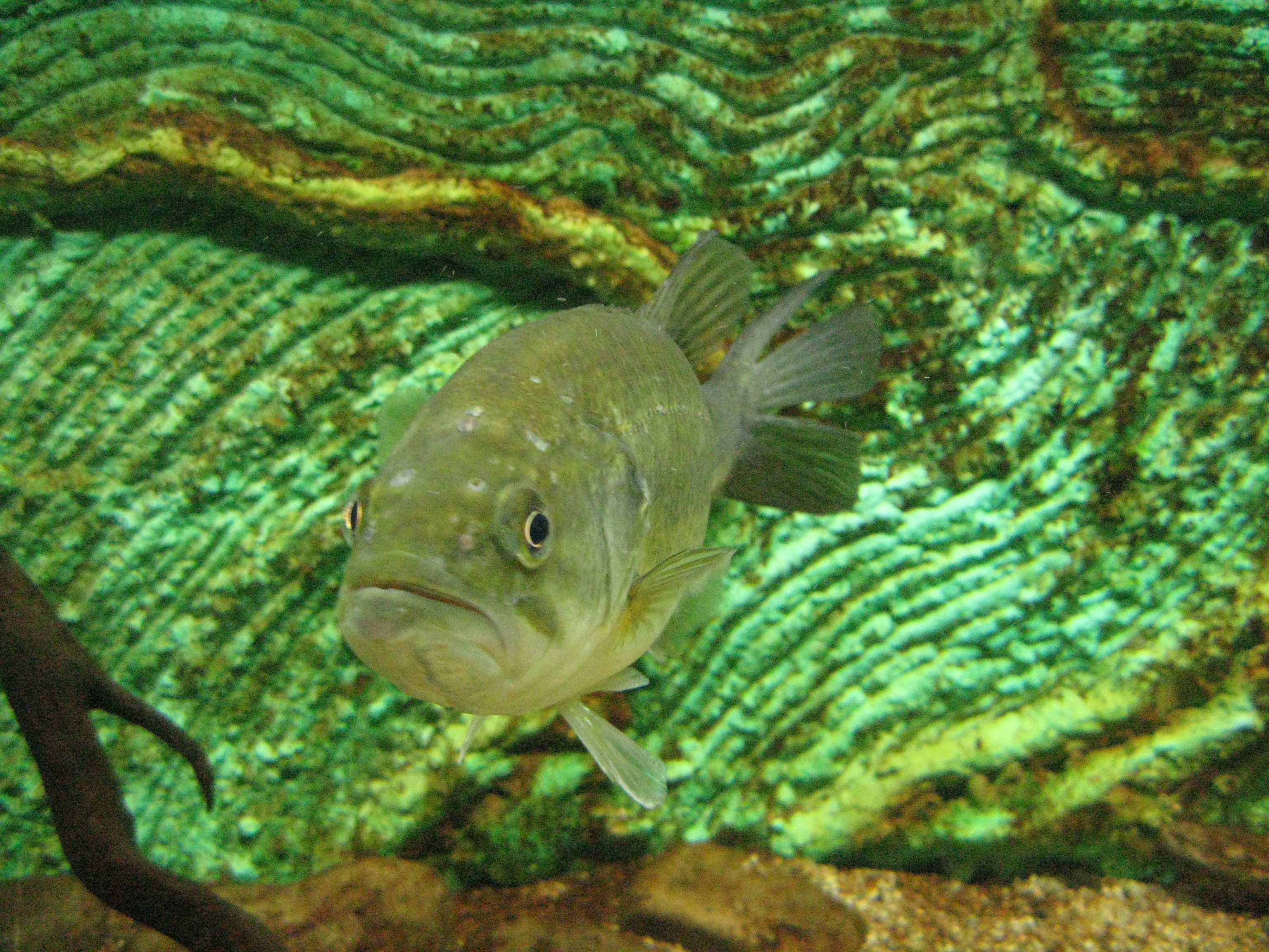 Micropterus_salmoides, Acquario del Po, Motta Baluffi (CR), Italy.